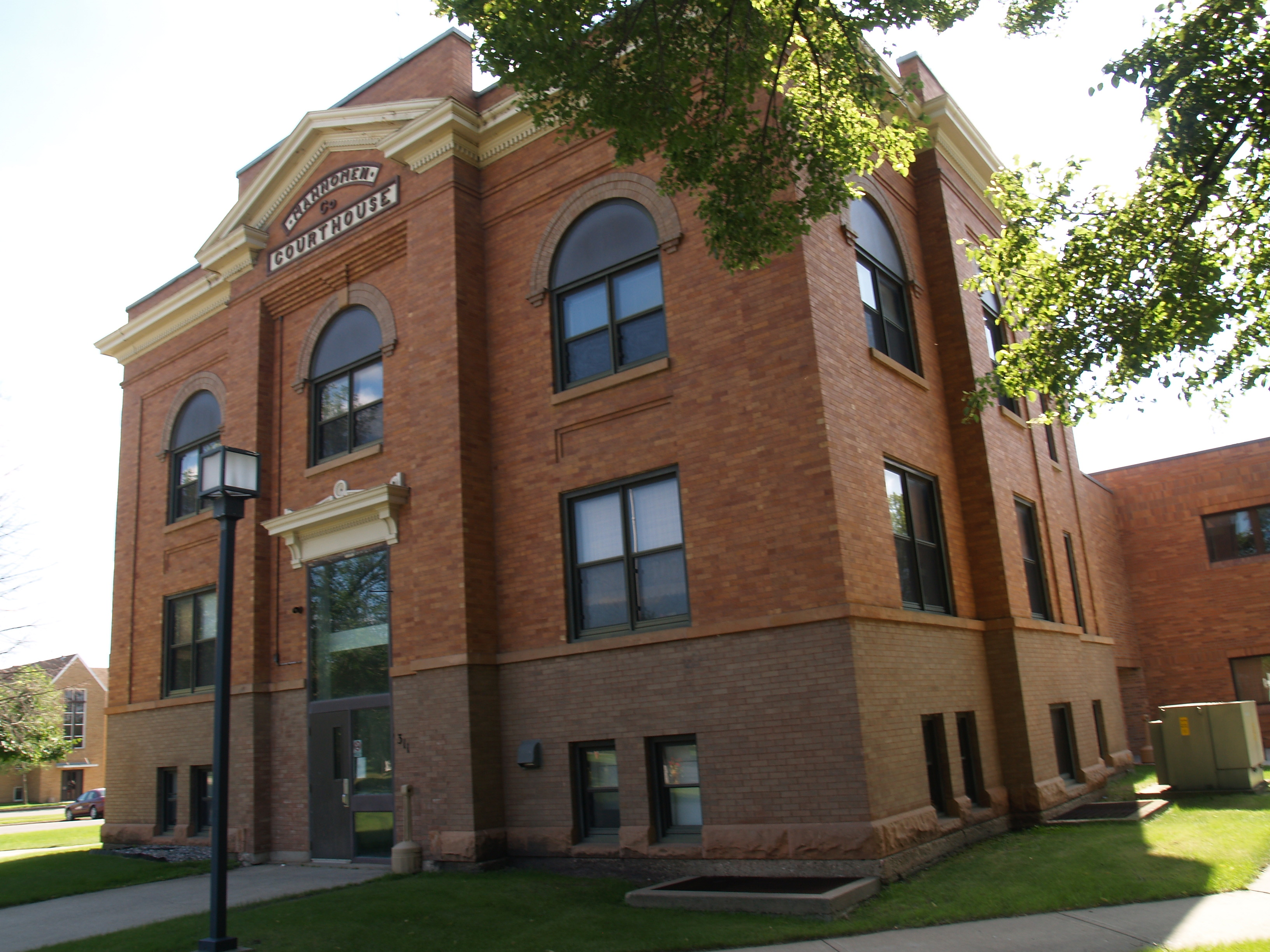 The NRHP-listed Mahnomen County Courthouse in Mahnomen, Minnesota.